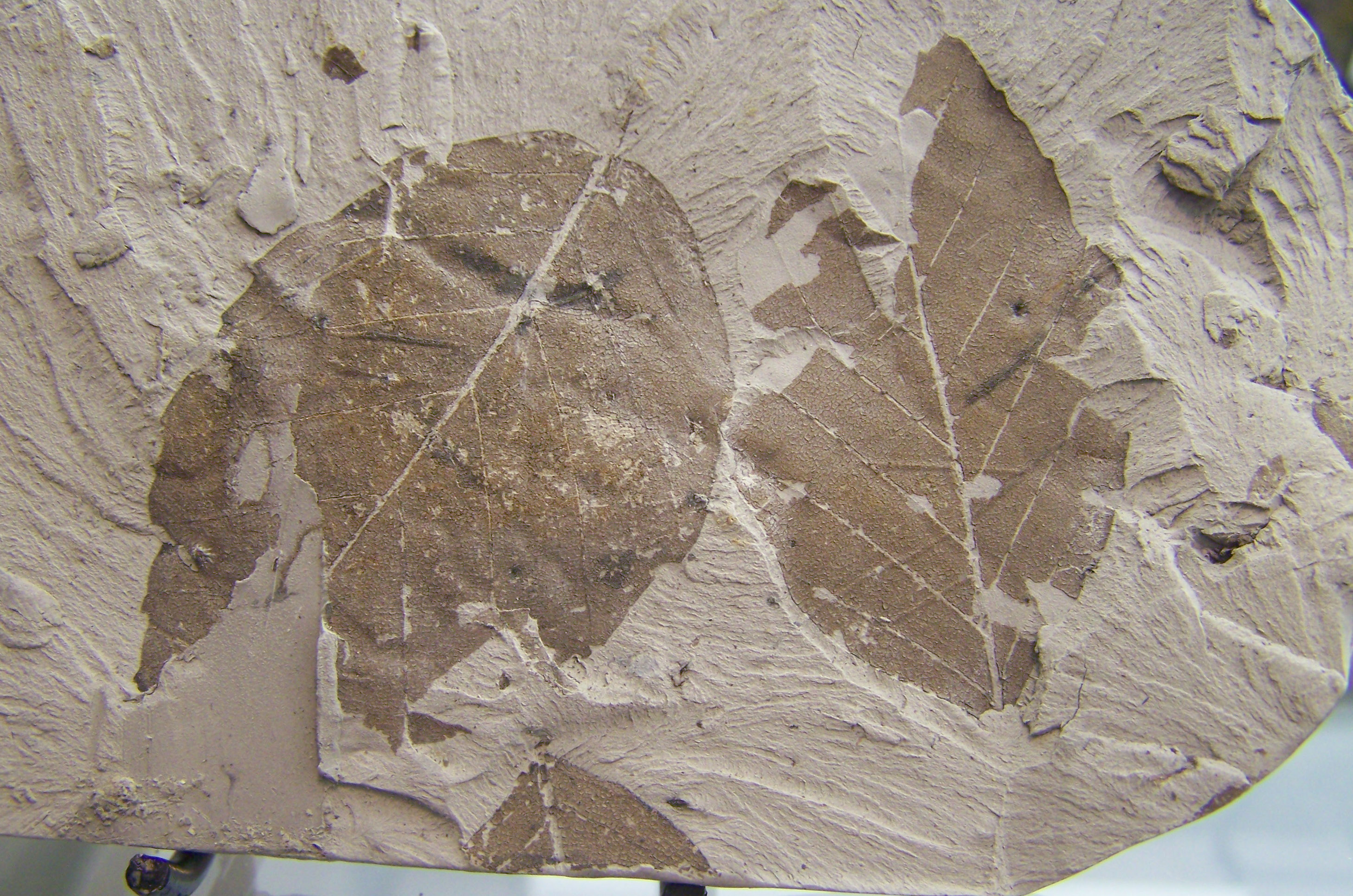 Fossil leaves of the tree species Fagus gussonii, Pliocene age. Leaves are ca. 6 cm long, collection of the Universiteit Utrecht.